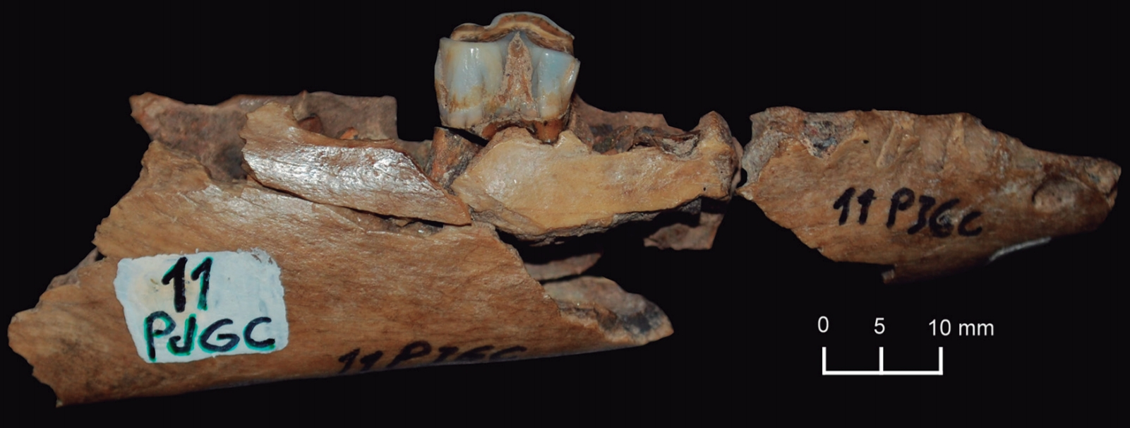 Neolicaphrium recens right hemimandible 2